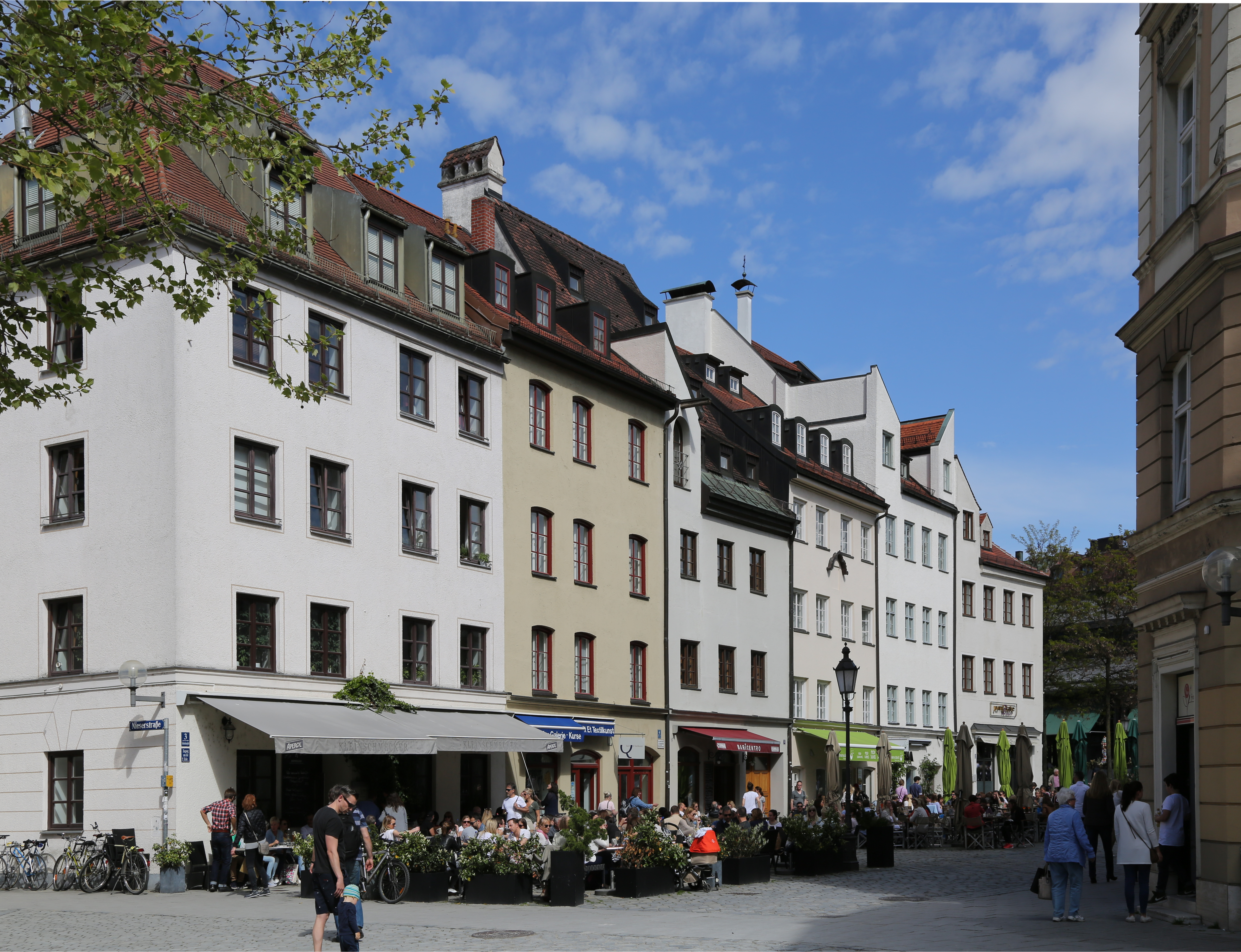 Sebastiansplatz, Munich, Germany